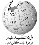 Uyghur wikipedia logo